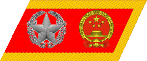 Generalissimo of the PRС collar insignia